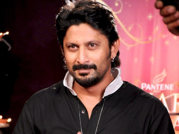 Arshad Warsi at Star Pariwar Awards 2010